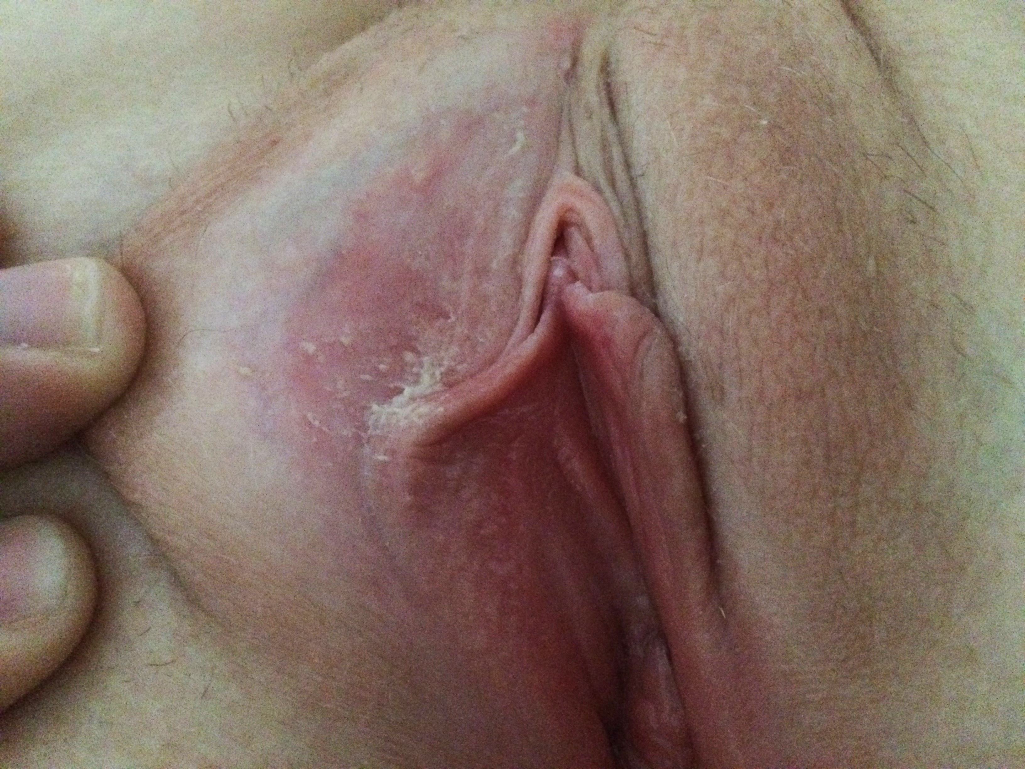 Human vulva with some well visible female smegma between the labia. For this photo, the pictured woman has not washed for approximately 24 hours.